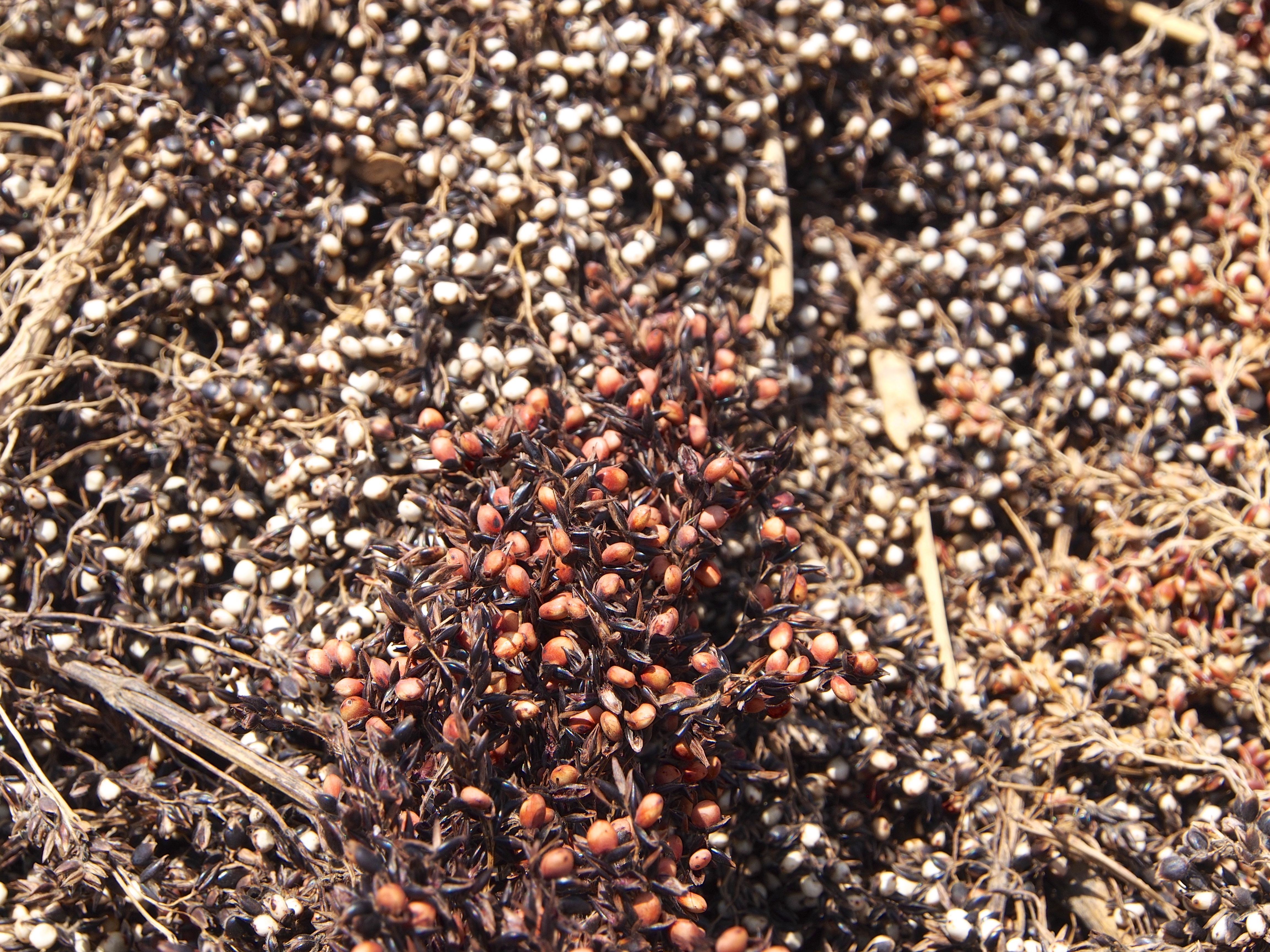 red sorghum grains on white sorghum grains. Picture taken at a farm in Sapouy, Burkina Faso.